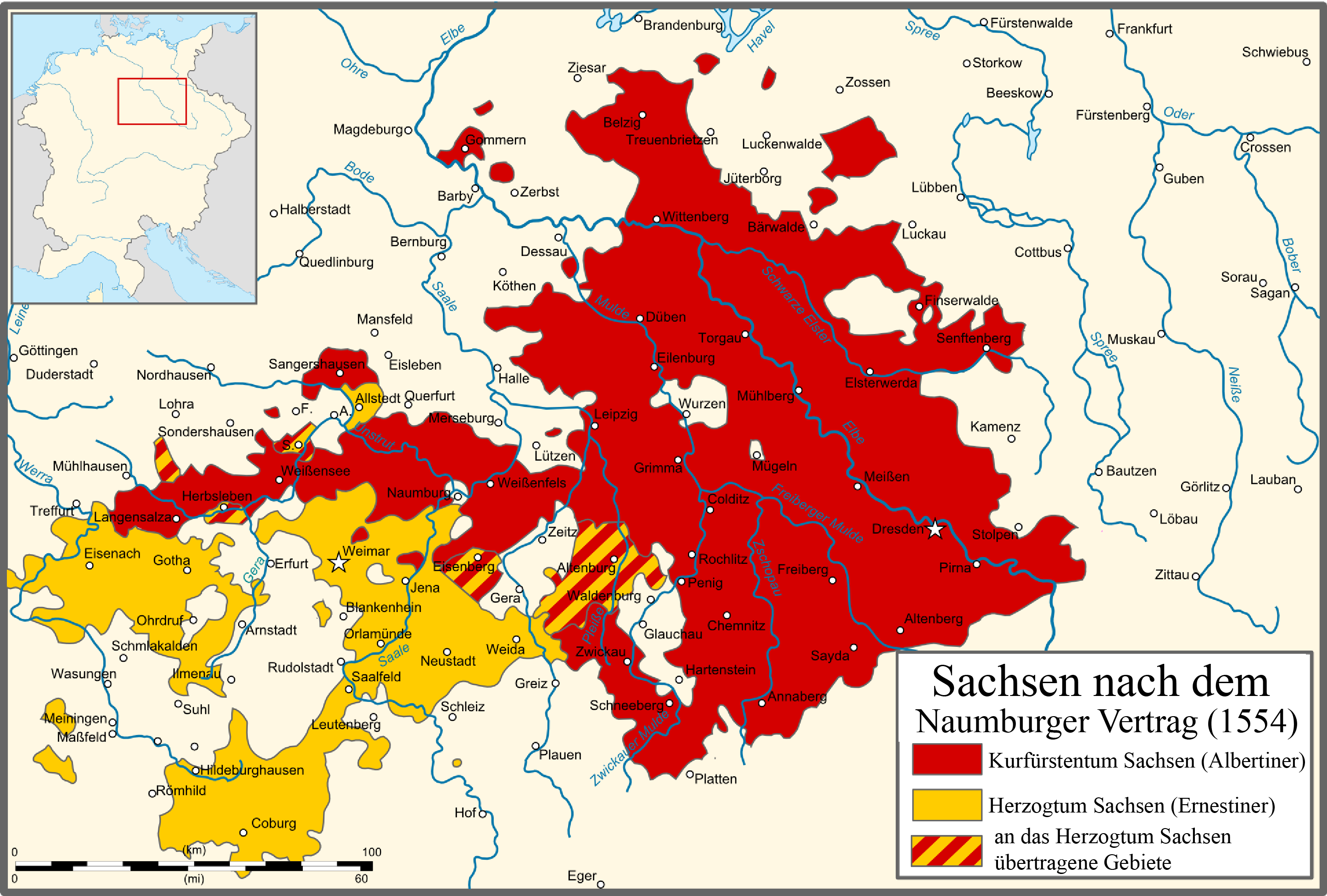 Map of Saxony after the Treaty of naumburg (1554). German version.